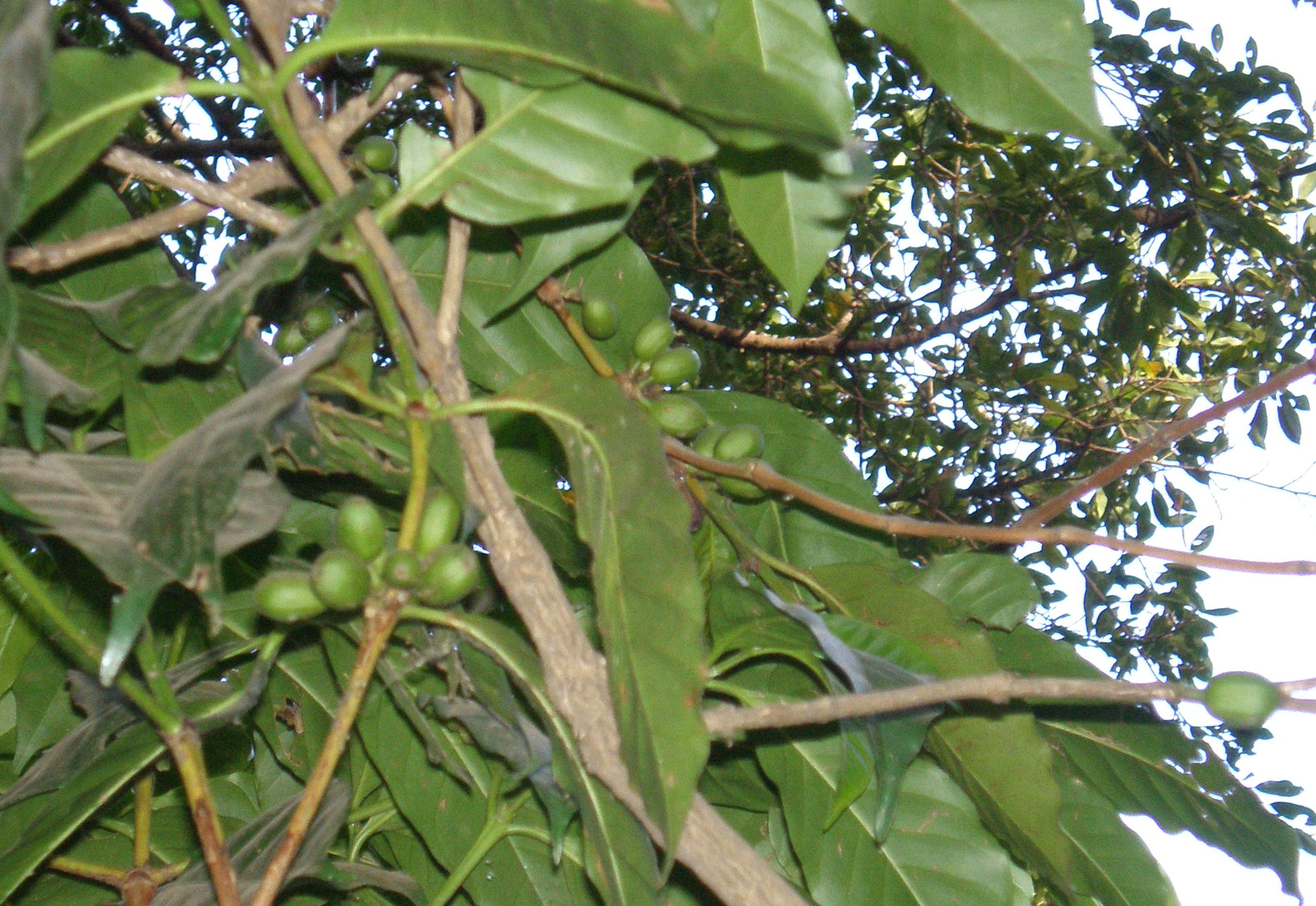 Natural coffee tree on shore of Lac Tana, Bahr Dahr, Ethiopia